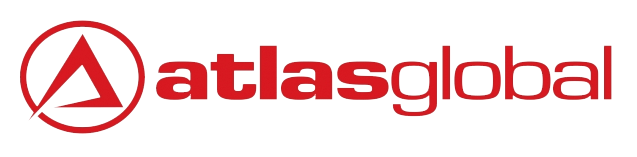 AtlasGlobal logo